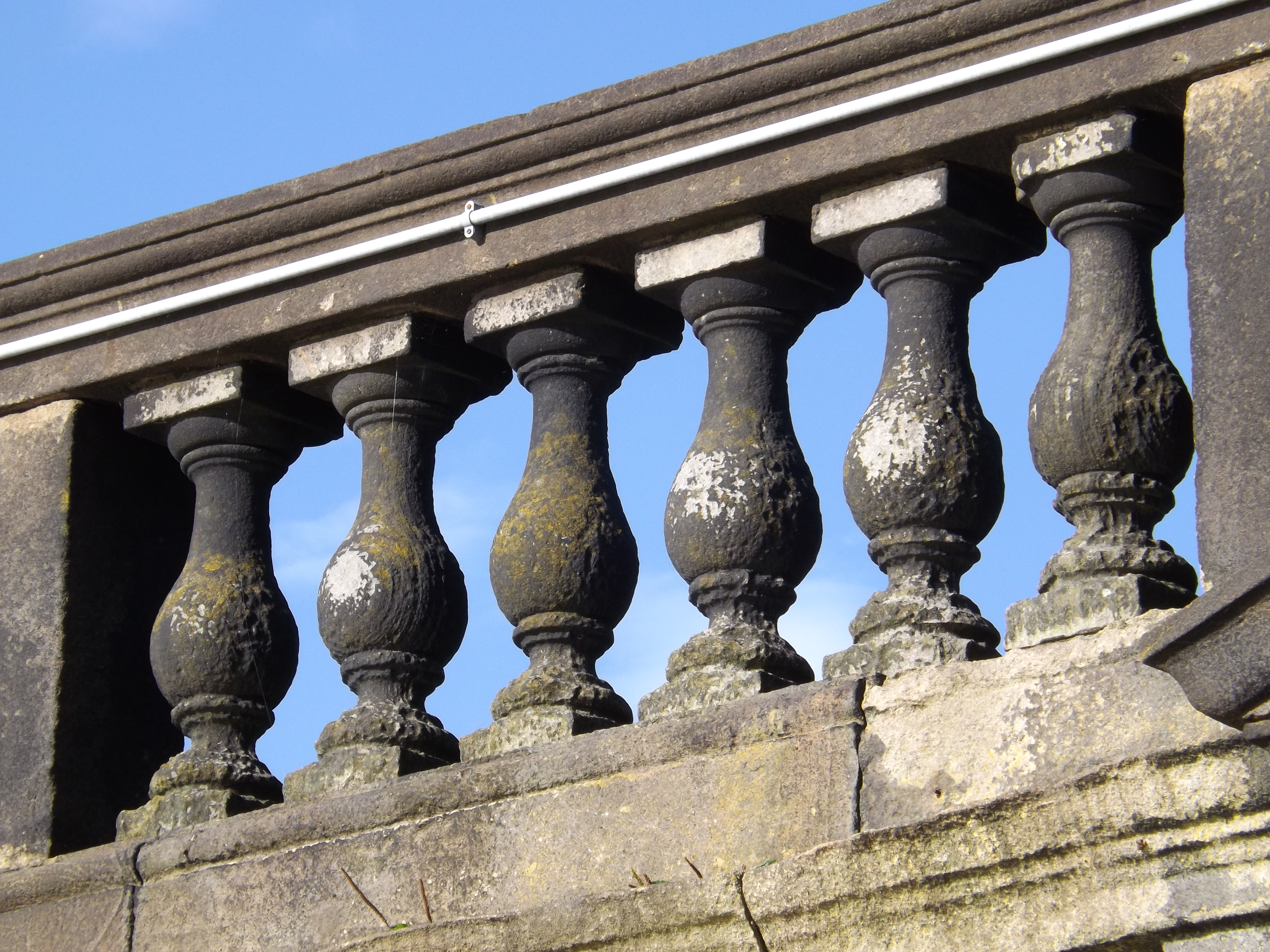 Skerton Bridge, Lancaster, England - Balustrade detail